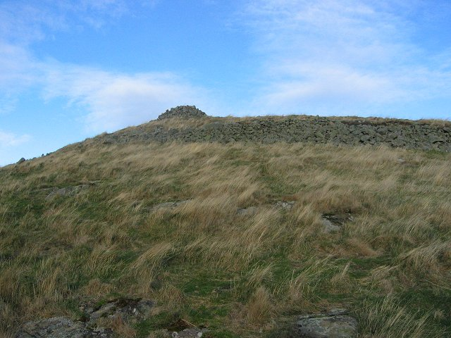 Norman's Law. Summit and remains of one of the hill fort walls.